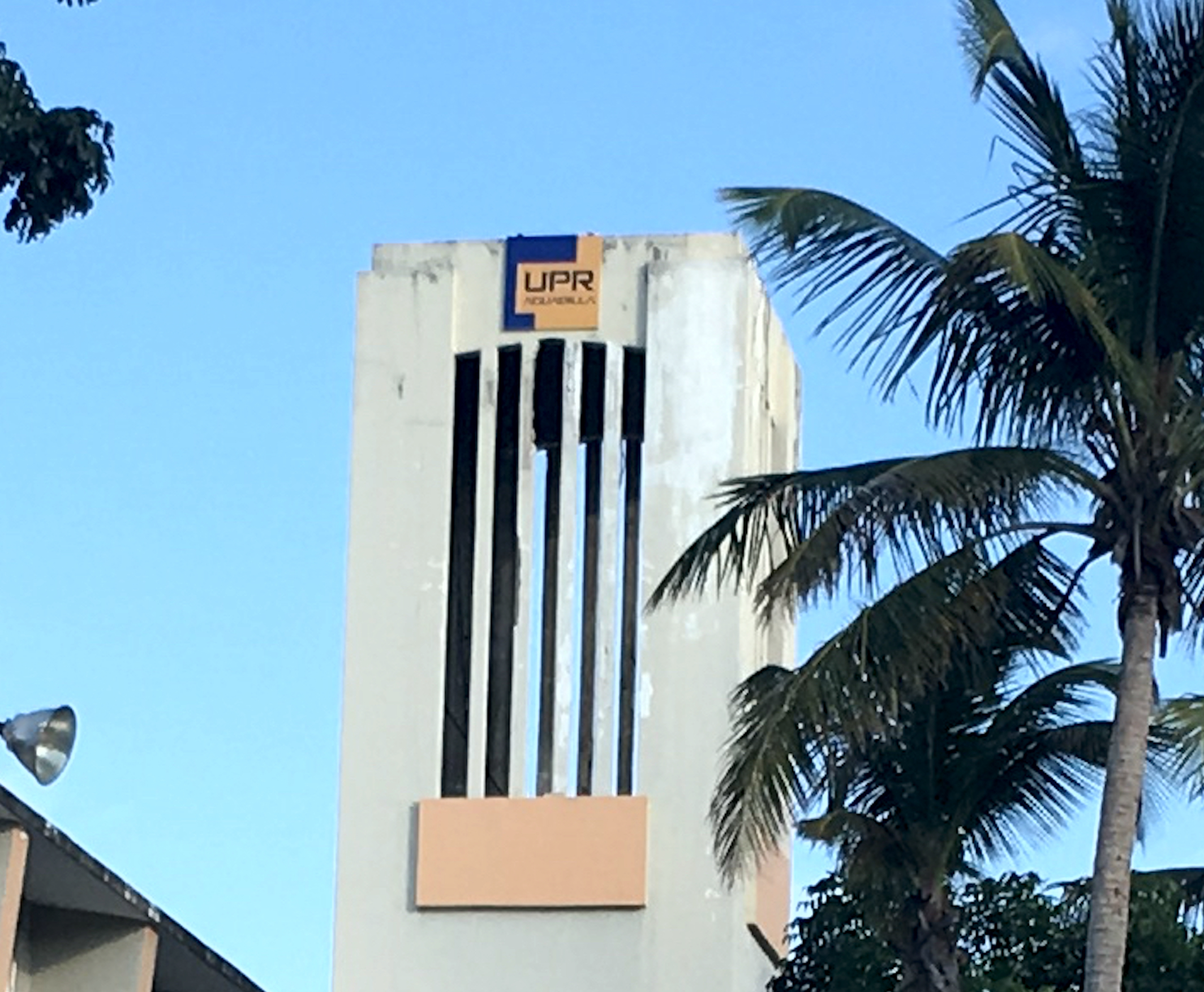 Tower of the UPRAg